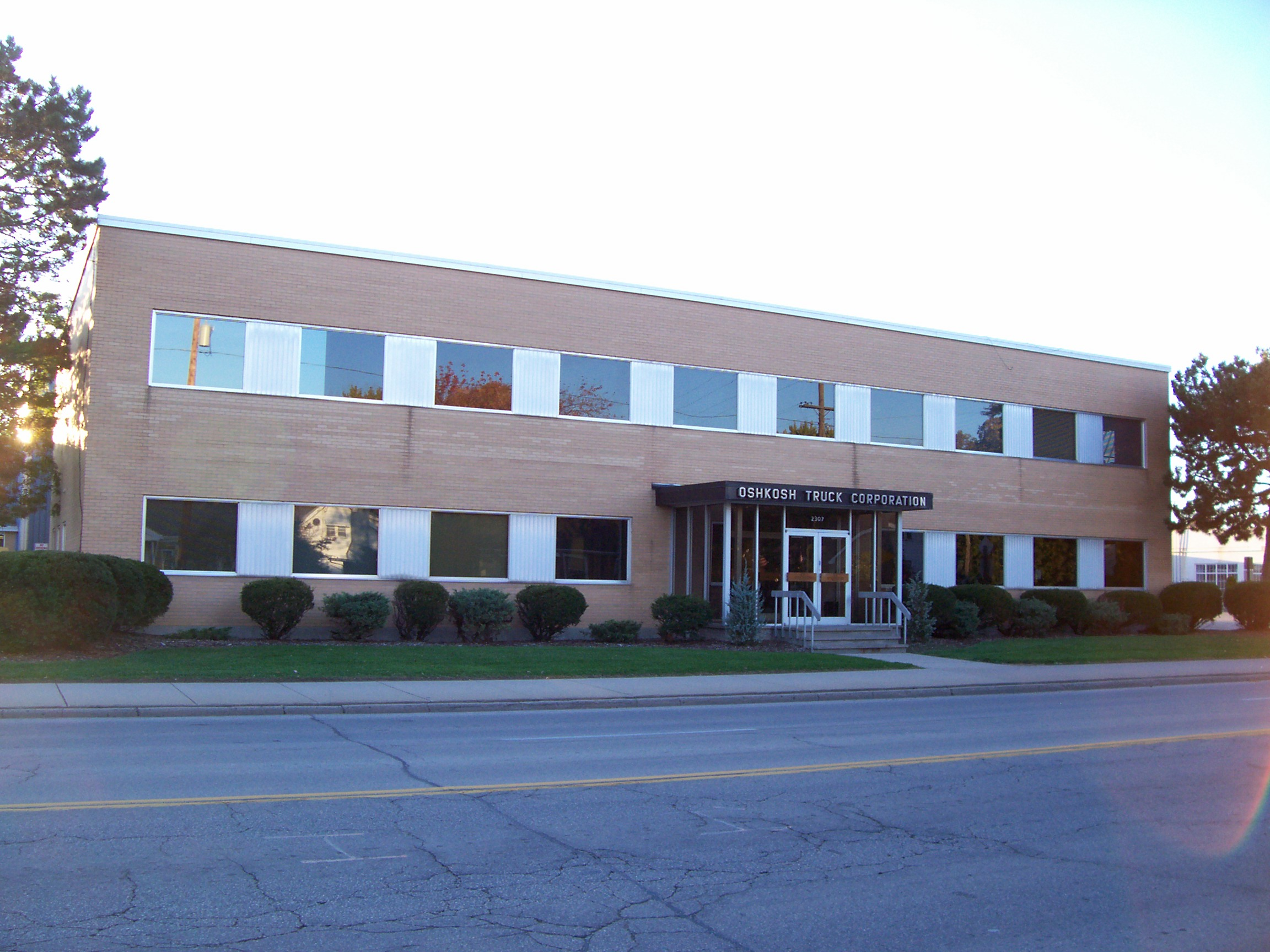 Image of a Oshkosh Truck's building in Oshkosh, Wisconsin, United States